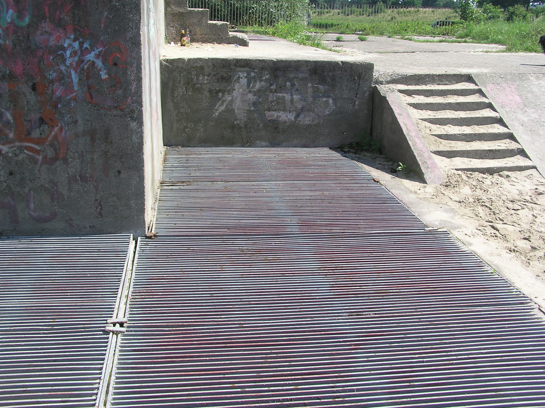 Wrocław, Oder River, Stara Odra, Różanka weir